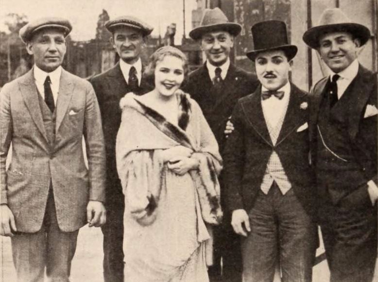 From left: Film producer Sam Warner, exhibitor Joe Marks from Youngstown, Ohio, actress Florence Gilbert, racing pilot Art Klein, comic actor Monty Banks, and film producer Jack Warner, on page 82 of the February 28, 1920 Exhibitors Herald.